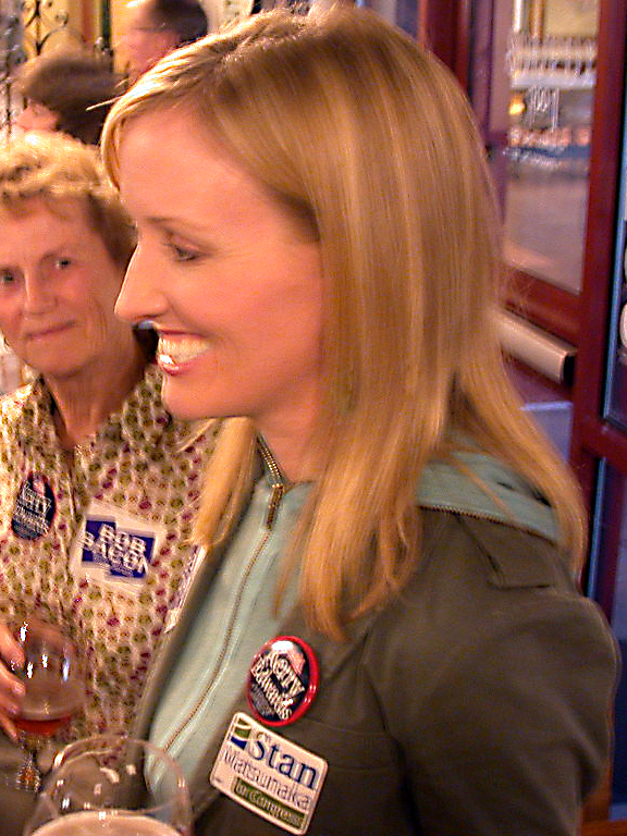 Janel Moloney - Cropped version